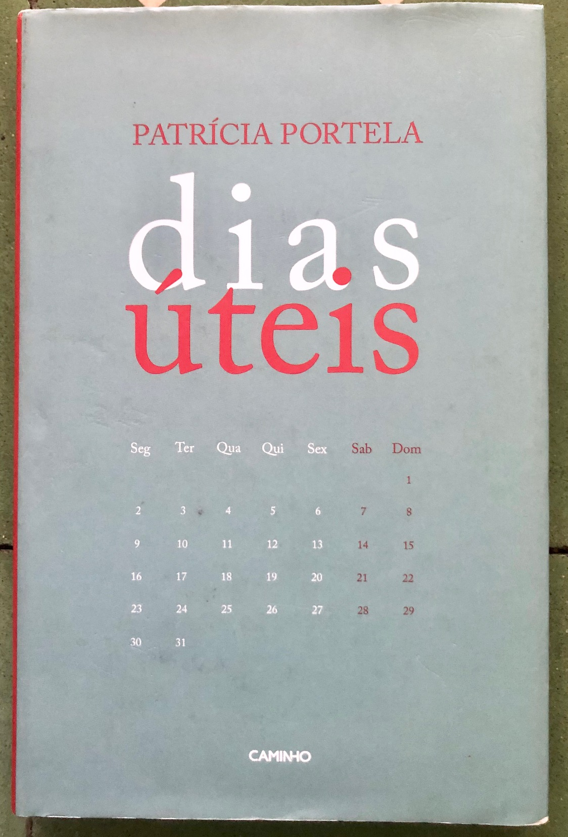 Book cover of Patrícia Portela.